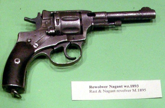 made during a summer day in Warsaw's Museum of the Polish Army; The Belgian FN Nagant system pistol of 1893-95, used predominantly in Russia during and after the WWI.